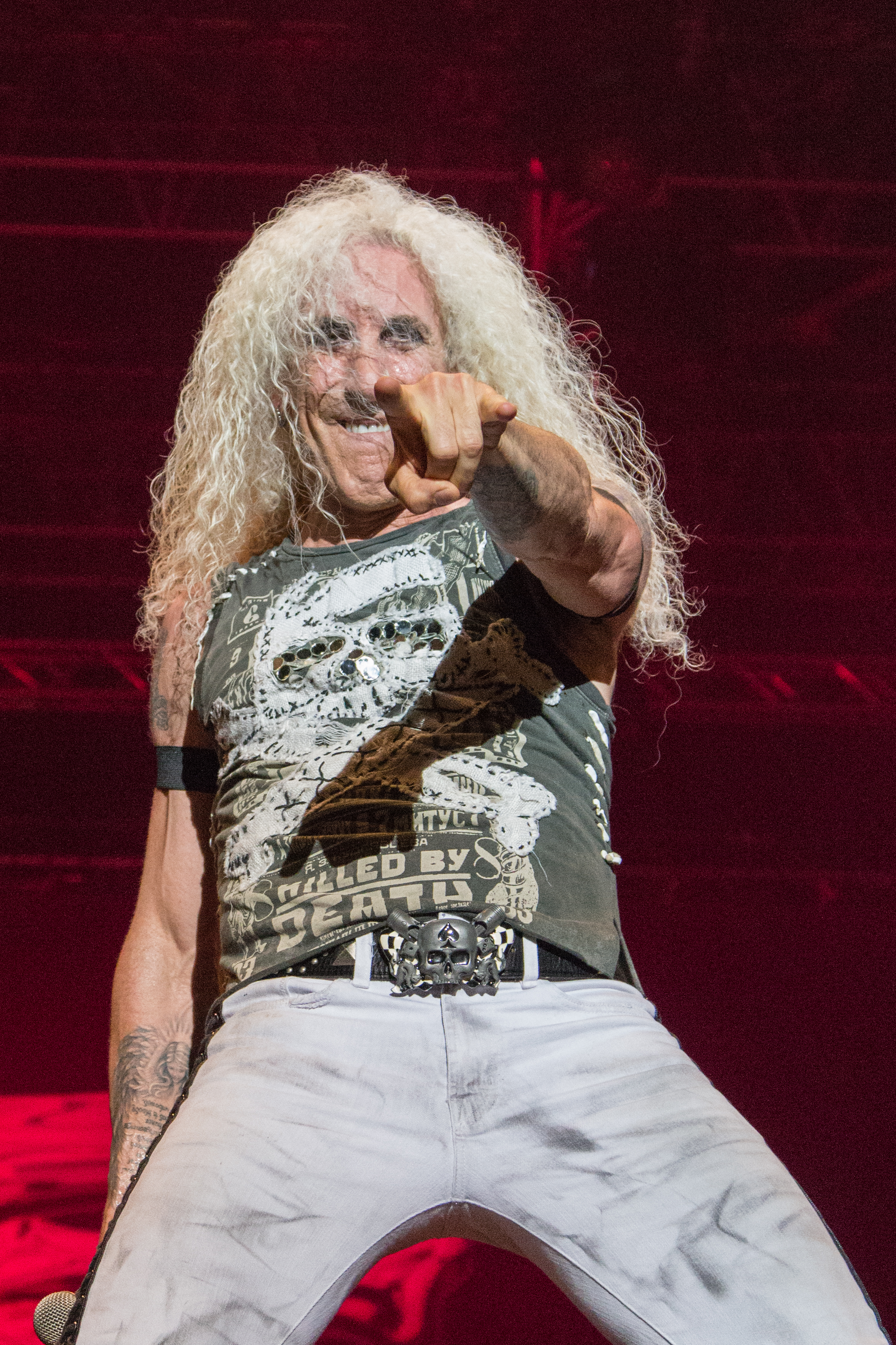 Daniel „Dee“ Snider from Twisted Sister at the See-Rock Festival 2014